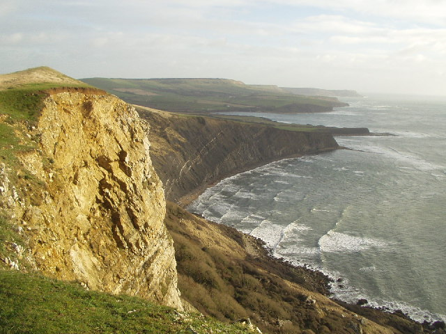 Kimmeridge Ledges. Looking E from Gad Cliff over Brandy Bay, Long Ebb, Hobarrow Bay, Broad Bench, Kimmeridge Bay and Kimmeridge Ledges towards St Aldhelms Head